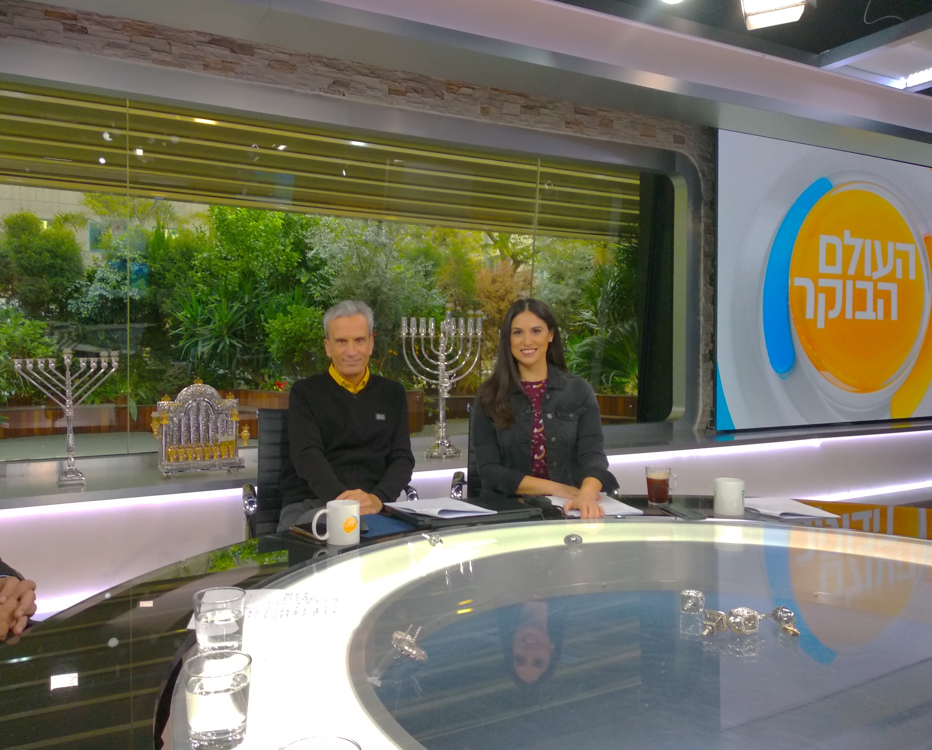 Avri Gilad and Maya Ziv-Wolf